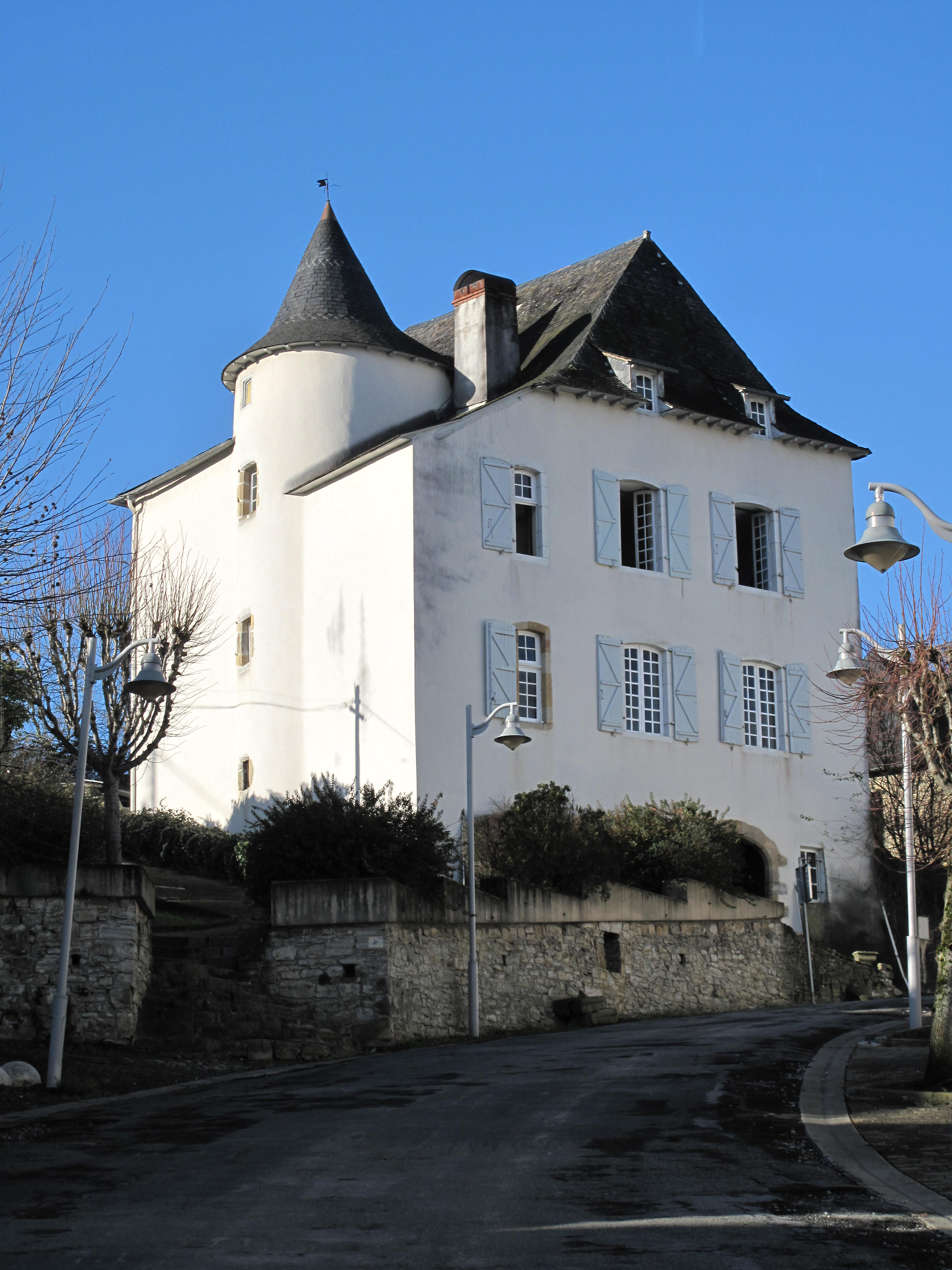 The manoir de Bela in Mauléon-Licharre, (Pyrénées-Atlantiques, France).